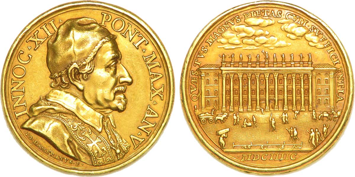 Médaille annuelle en or du Vatican à l'effigie du Pape Innocent XII, 1695